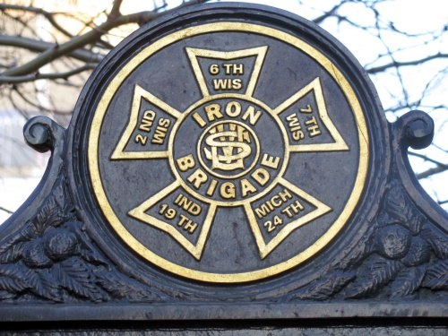 Iron Brigade Unit Insignia, Gettysburg Historical Marker